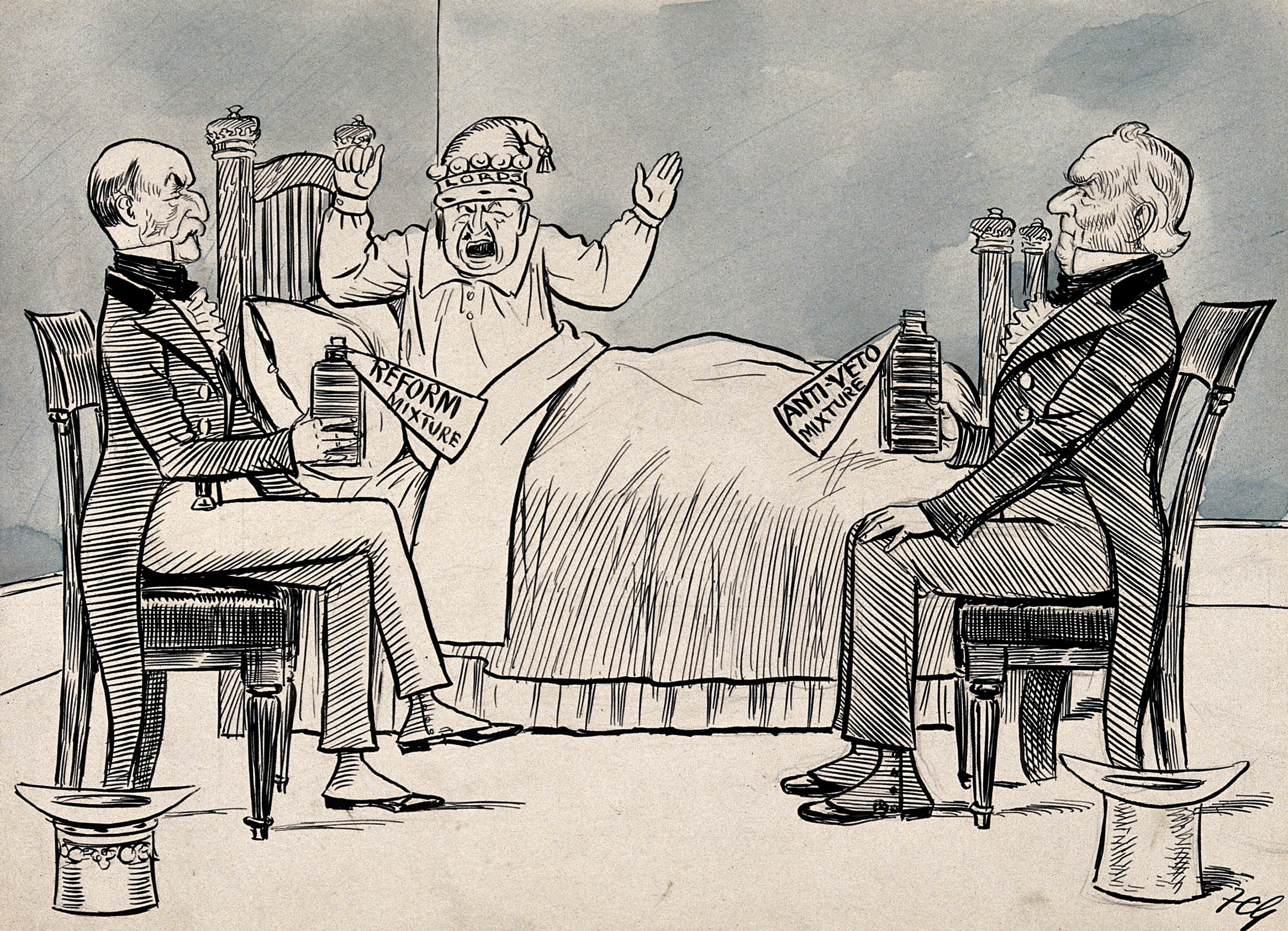 Two doctors recommending different remedies to an irate patient; satirizing arguements surrounding the Parliament Act of 1911 and reform in the House of Lords. Pen drawing by HG, 1911. Iconographic Collections Keywords: Physicians; great britain - politics and g; lloyd george, david, earl of d; satires; pen works; H. G.; Patients; ink drawings; legislative bodies - reform; David Lloyd George